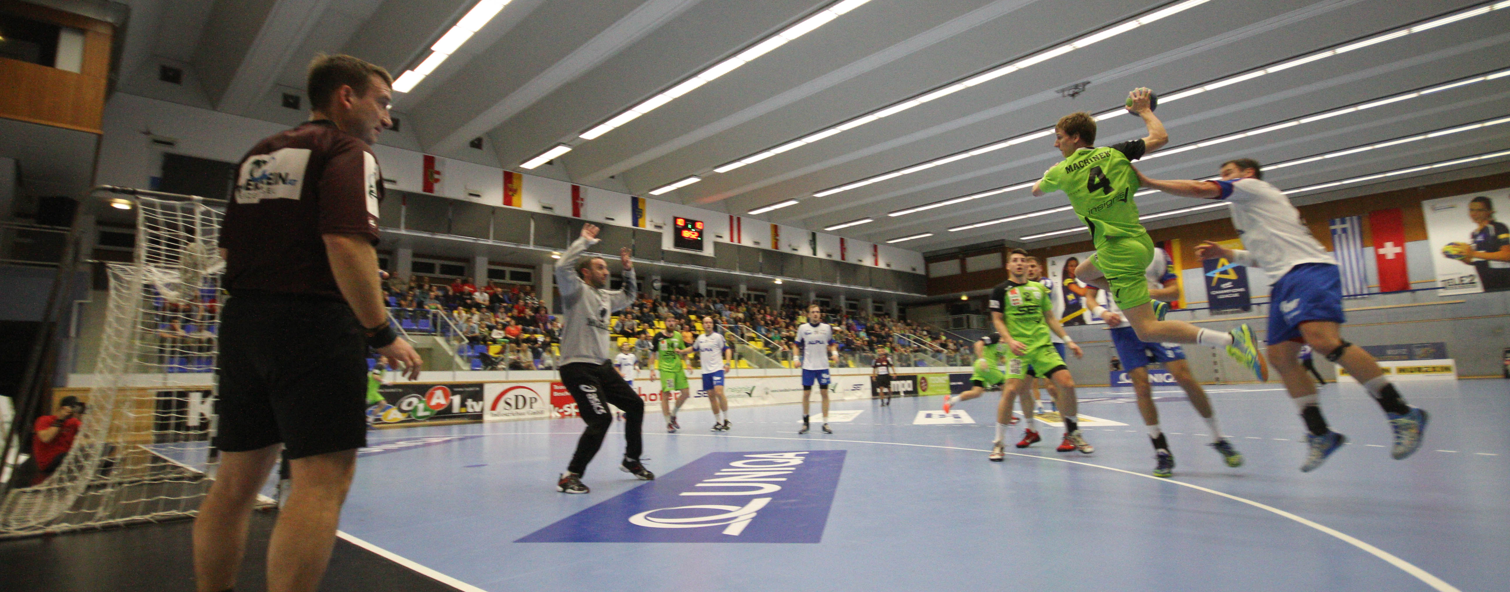 A game of SG Handball West Wien in their Stadium BSFZ Südstadt